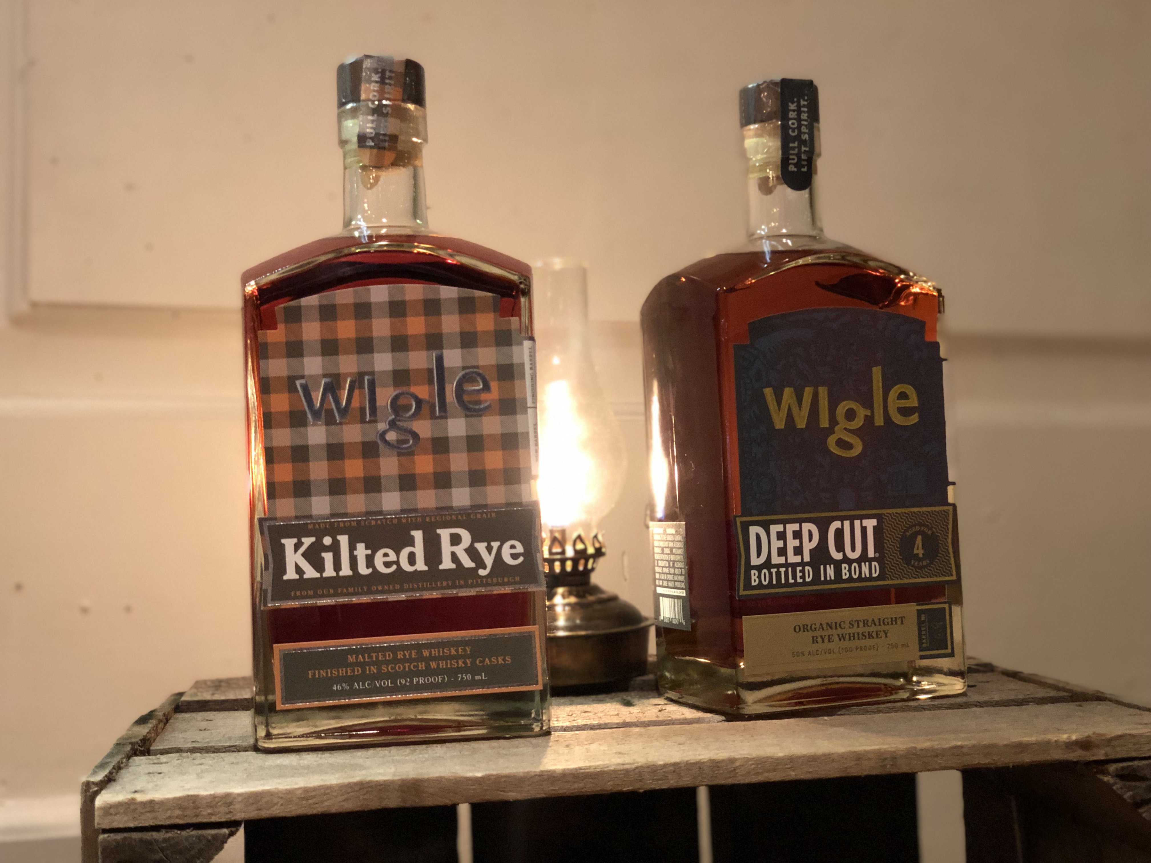 Two bottles of Wigle Whiskey (Kilted Rye and Deep Cut) photographed at the Wigle Whiskey tasking room in Pittsburgh, PA